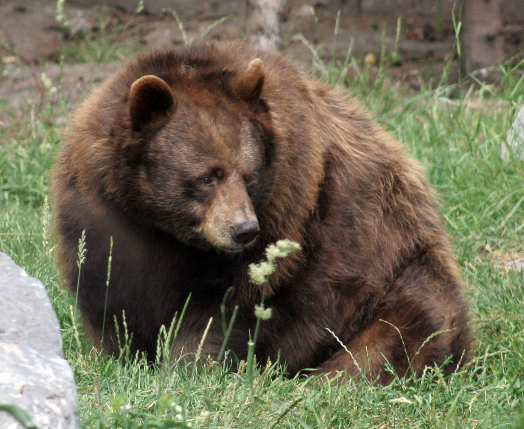 Bear